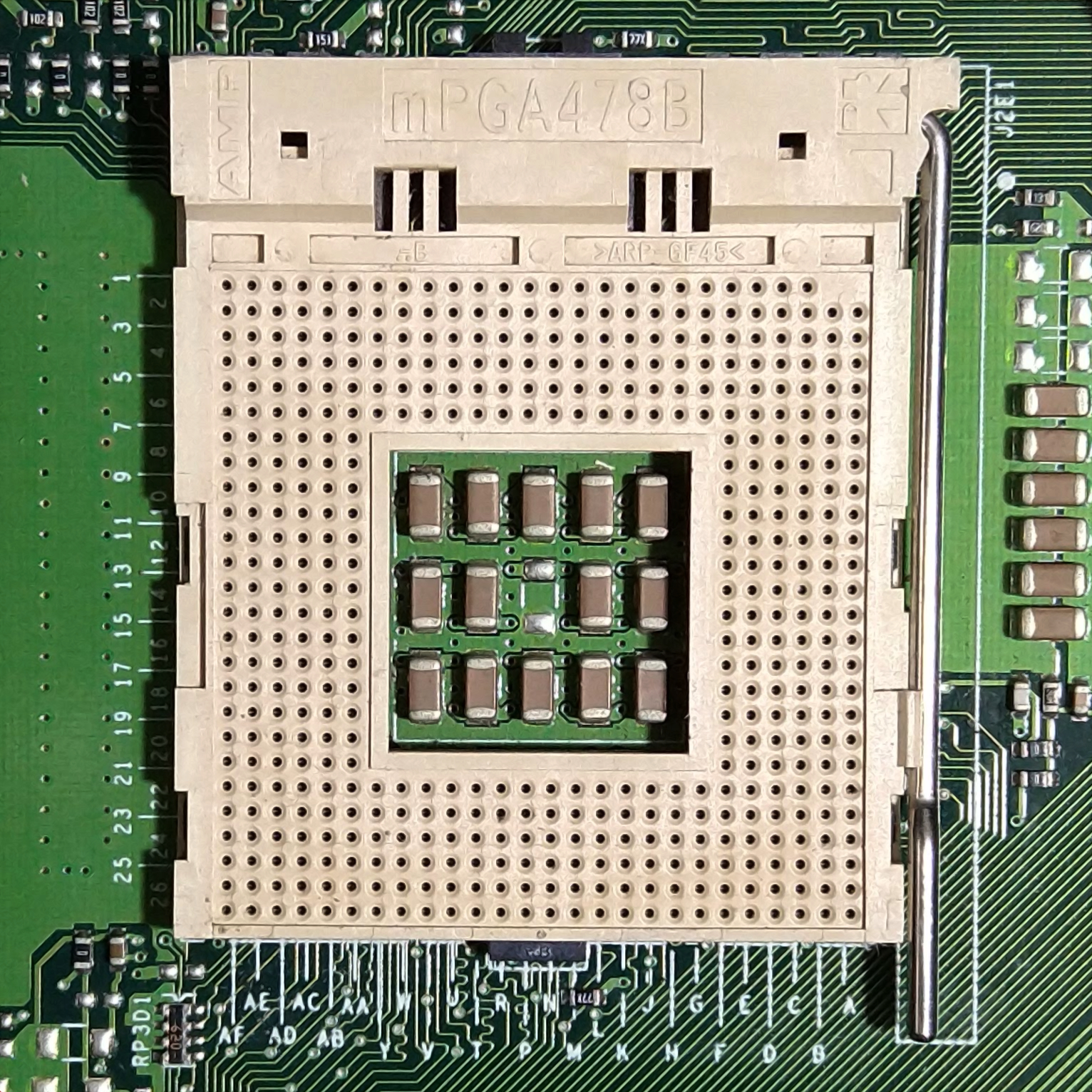 Socket PGA478 Intel D865GVHZ motherboard